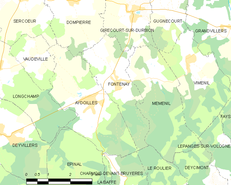 Map of French municipality Fontenay